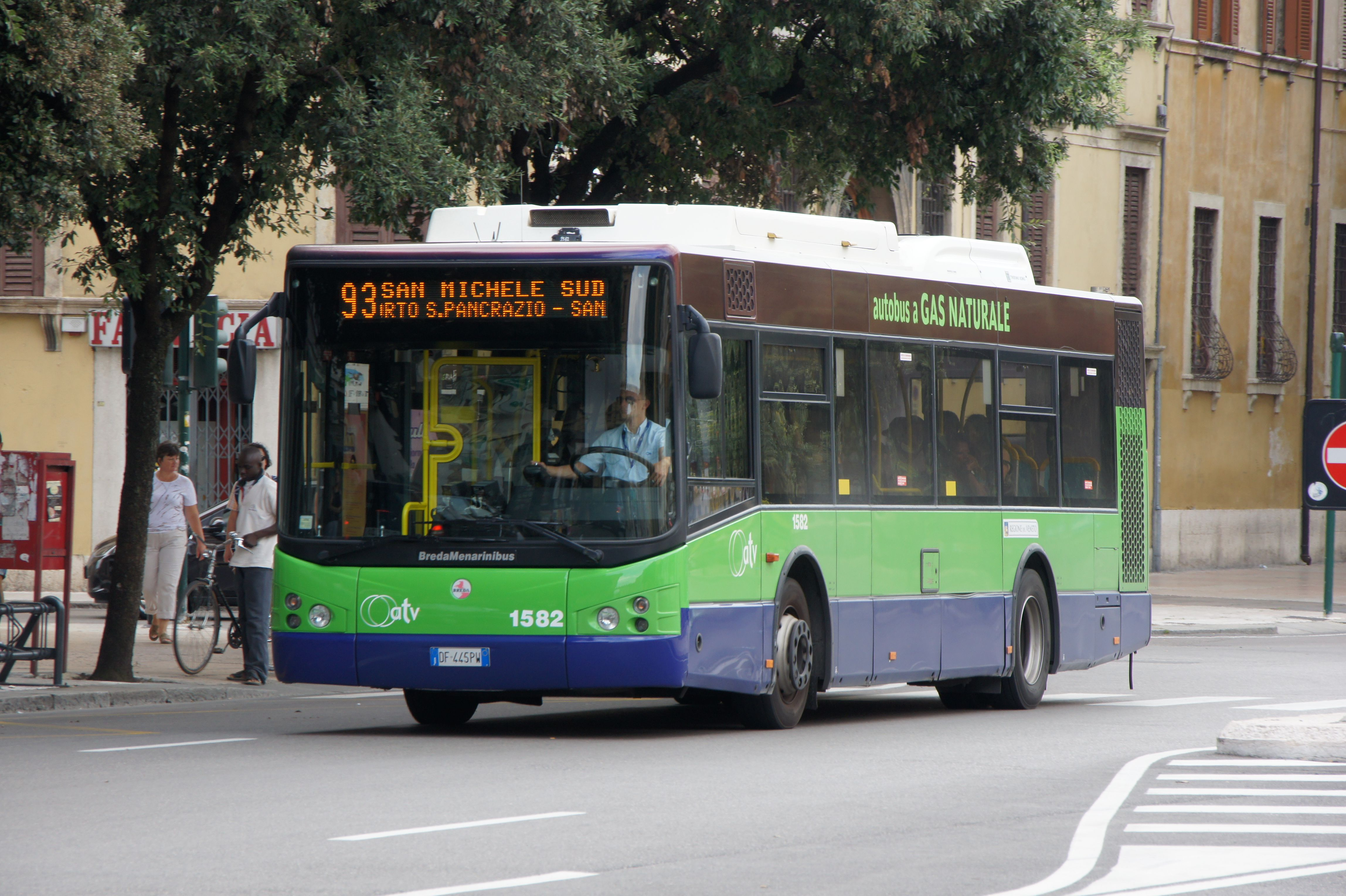 Various vehicles from a holiday in Garda, Italy